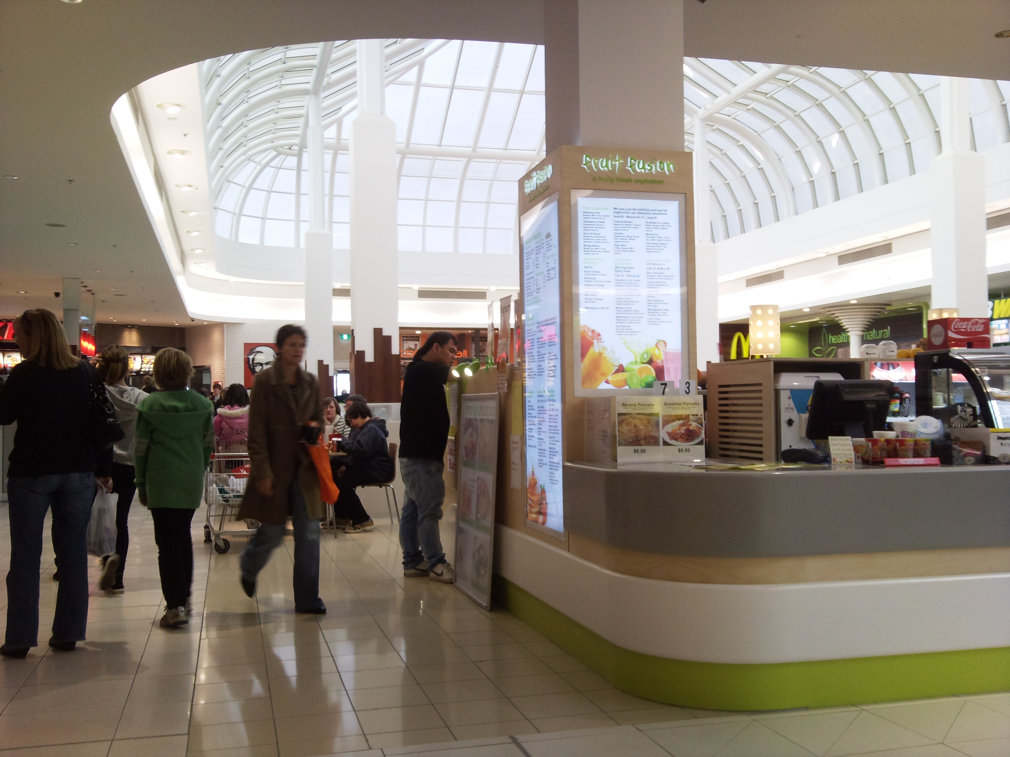 Food Court after 2011 redevelopment.